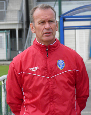 Jean-Marc Furlan 2